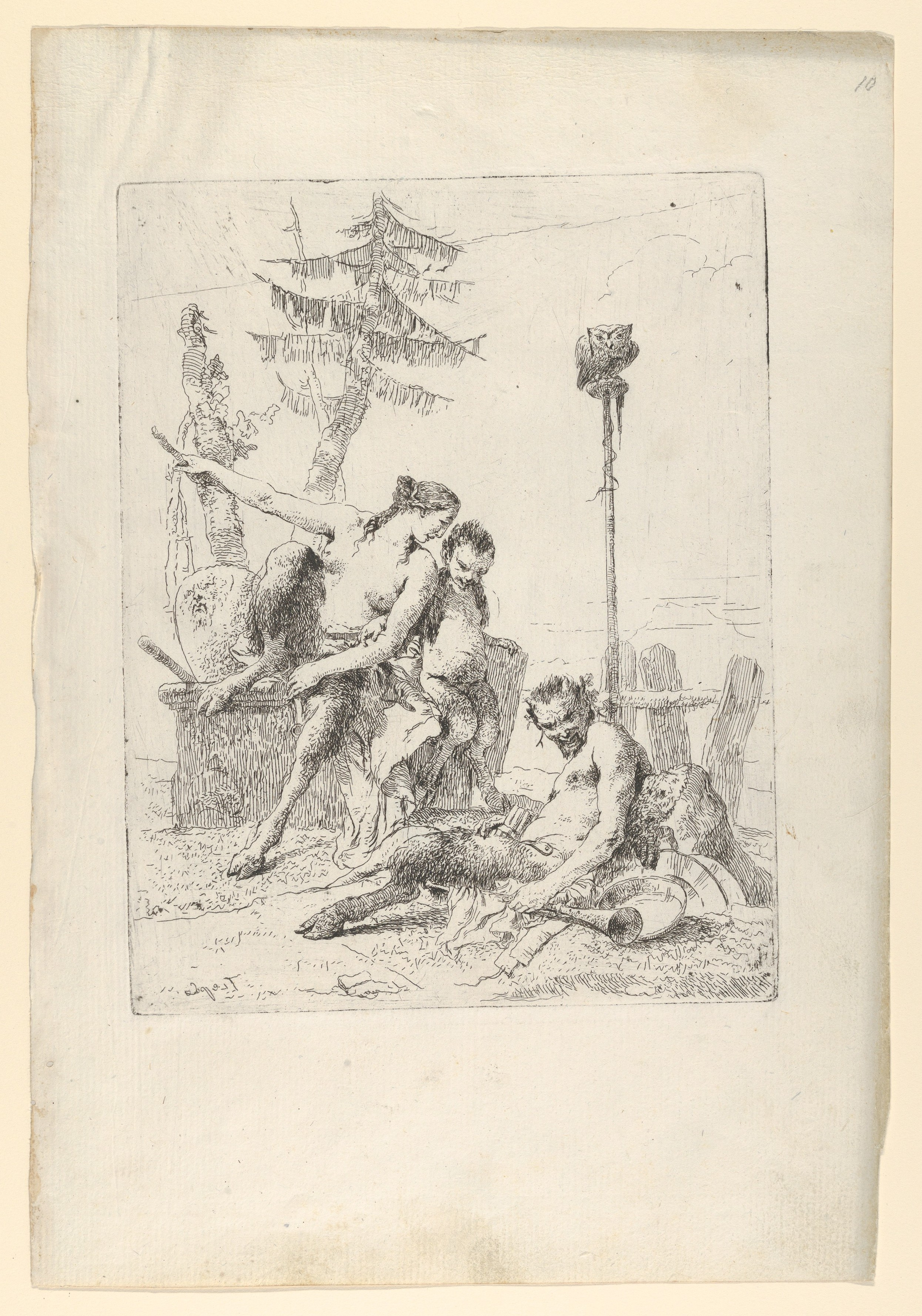 Print; Prints